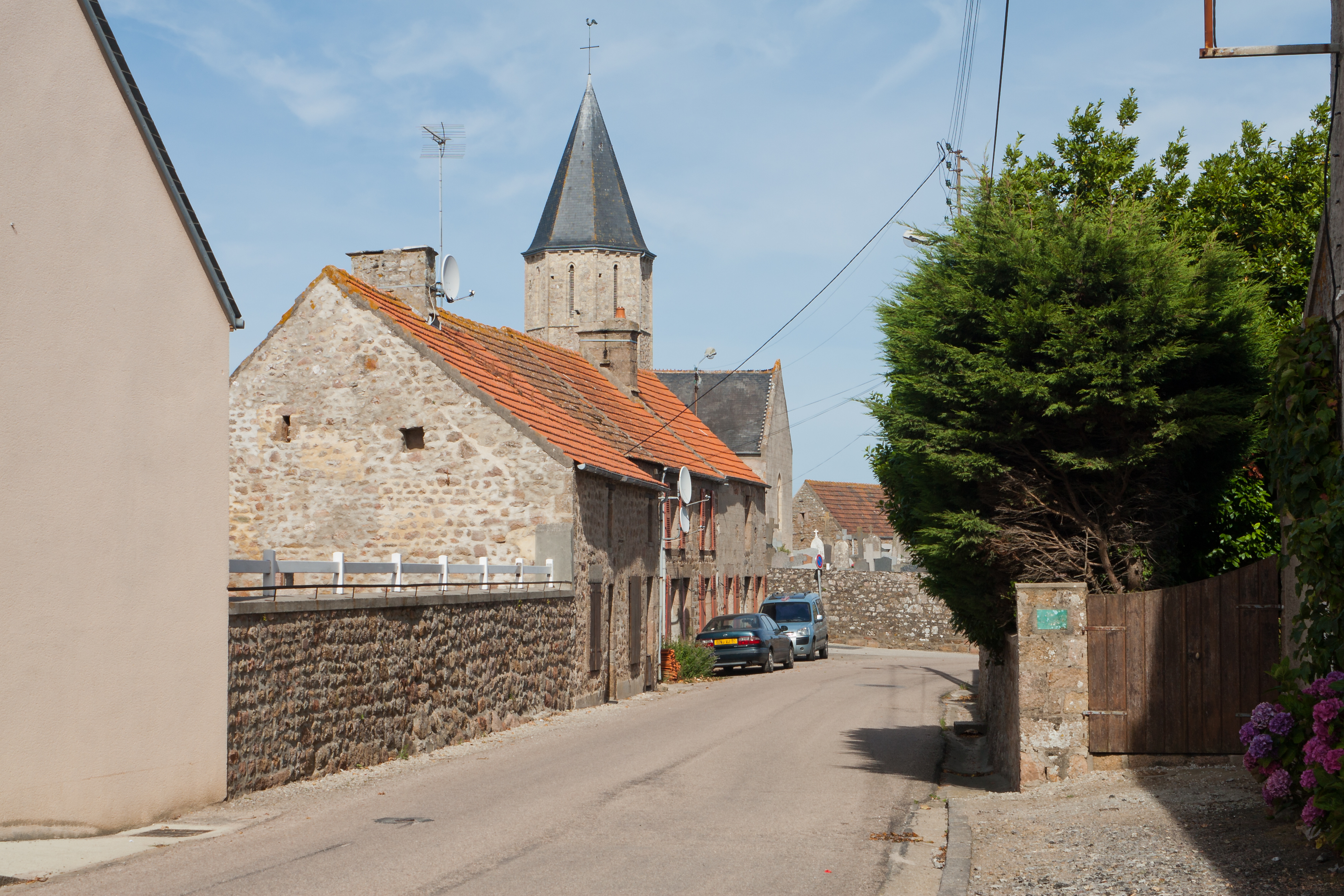 Street in Cosqueville leading to the church, looking north-east.